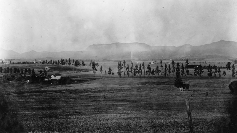 Panoramic view of Hollywood circa 1900, looking north from Ardmore Hill toward a farmhouse and windmill. Fences and trees mark the boundaries of fields. A church and a few houses are seen in the distance.